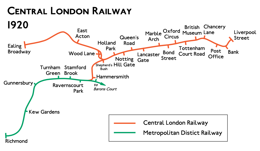 Geographic Map of the Central London Railway as planned in 1920.